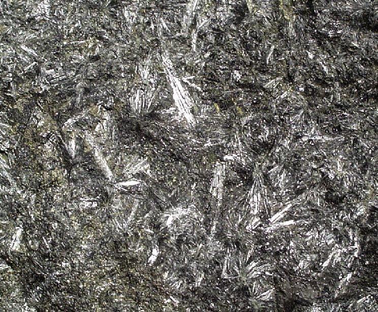 Ludwigite Locality: Alta Stock, Salt Lake County, Utah, USA (Locality at ) Size: 8.9 x 6.1 x 3.8 cm. Ludwigite is a rare magnesium, iron borate and this old-time specimen is nearly solid ludwigite with just a bit of matrix. Radial aggregates of lustrous, black, metallic, acicular ludwigite crystals cover all surfaces on this piece. This is extremely uncommon material from the Alta Stock of Utah. Highly representative of the species and locale from the Mullane Collection and dates to the 1960s or 1970s.